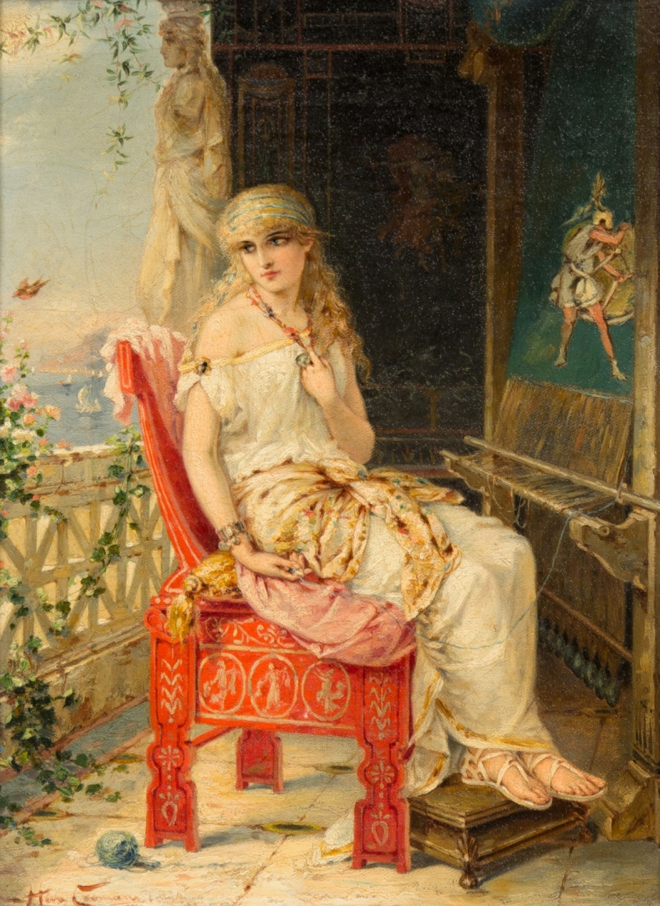 Penelope awaiting Odysseus